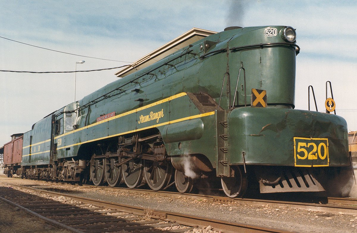 The "520" class loco, engine 520 at the Mount Gambier (South Australia) station, May 1984.